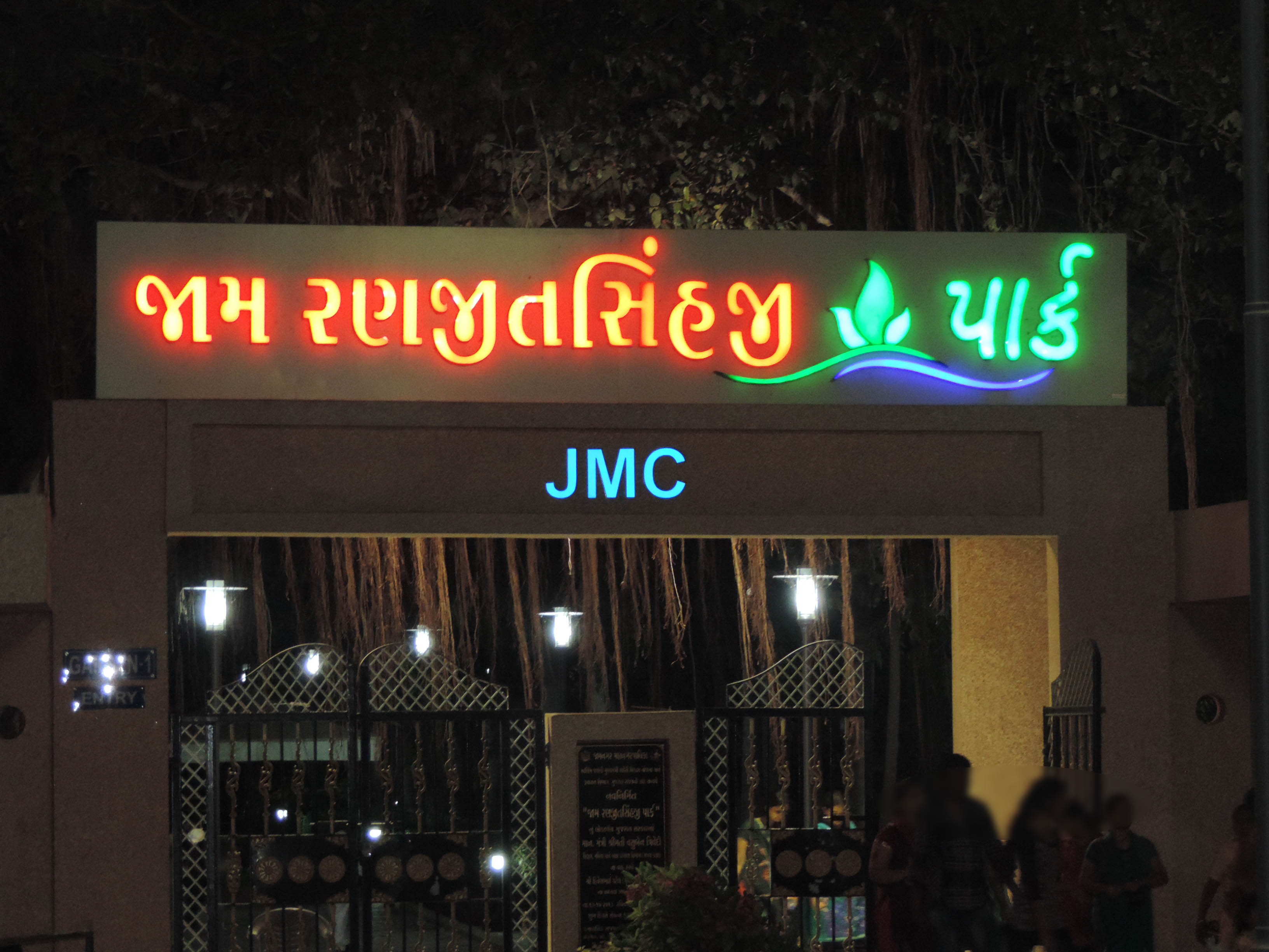 Main Gate of Jam Ranjitsinhji Park, Ranjitsagar Dam, Jamnagar.